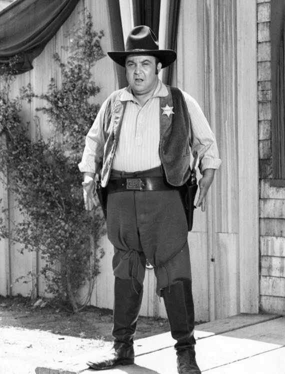 Photo of comedian Allen Sherman from a guest-starring role on the television program The Loner.